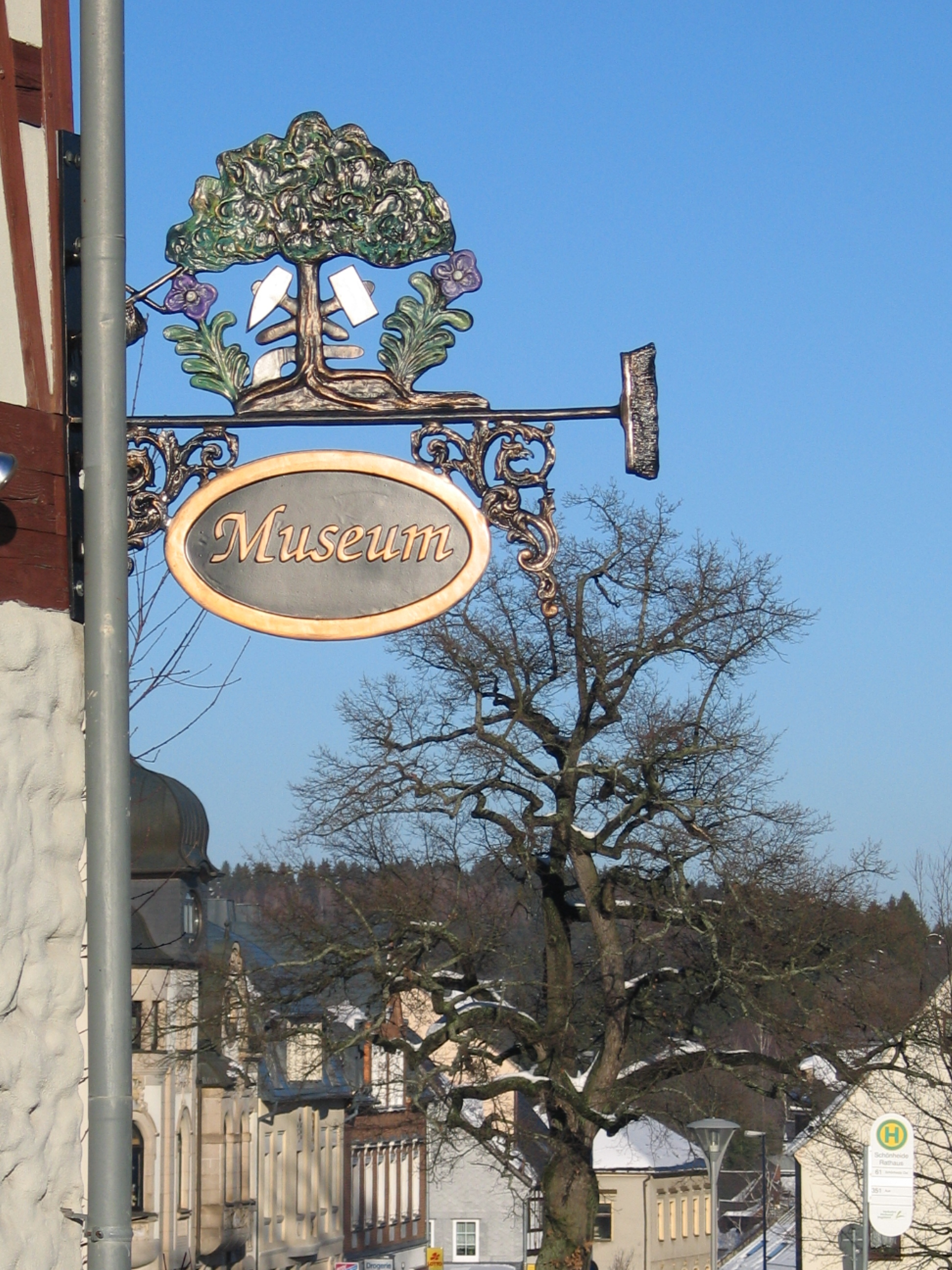 Schönheide (Ore mountains) At the left in the foreground the sign for the Brush- and Local Museum. The tree behind is an oaktree – used for the coat of arms of Schönheide. So the oaktree is to be seen twice: real on the market-place beside the town-hall and on the sign of the museum.